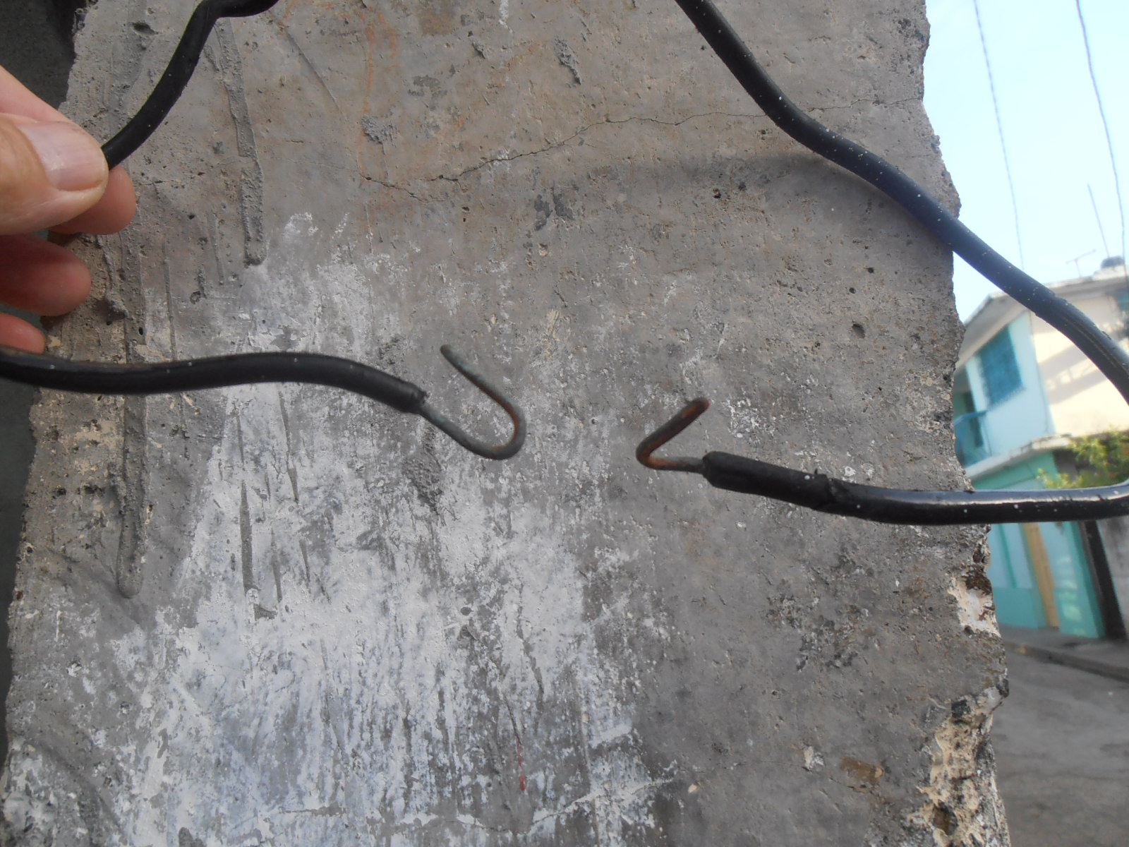 This is the switch for the street light. can be found in Baracoa.